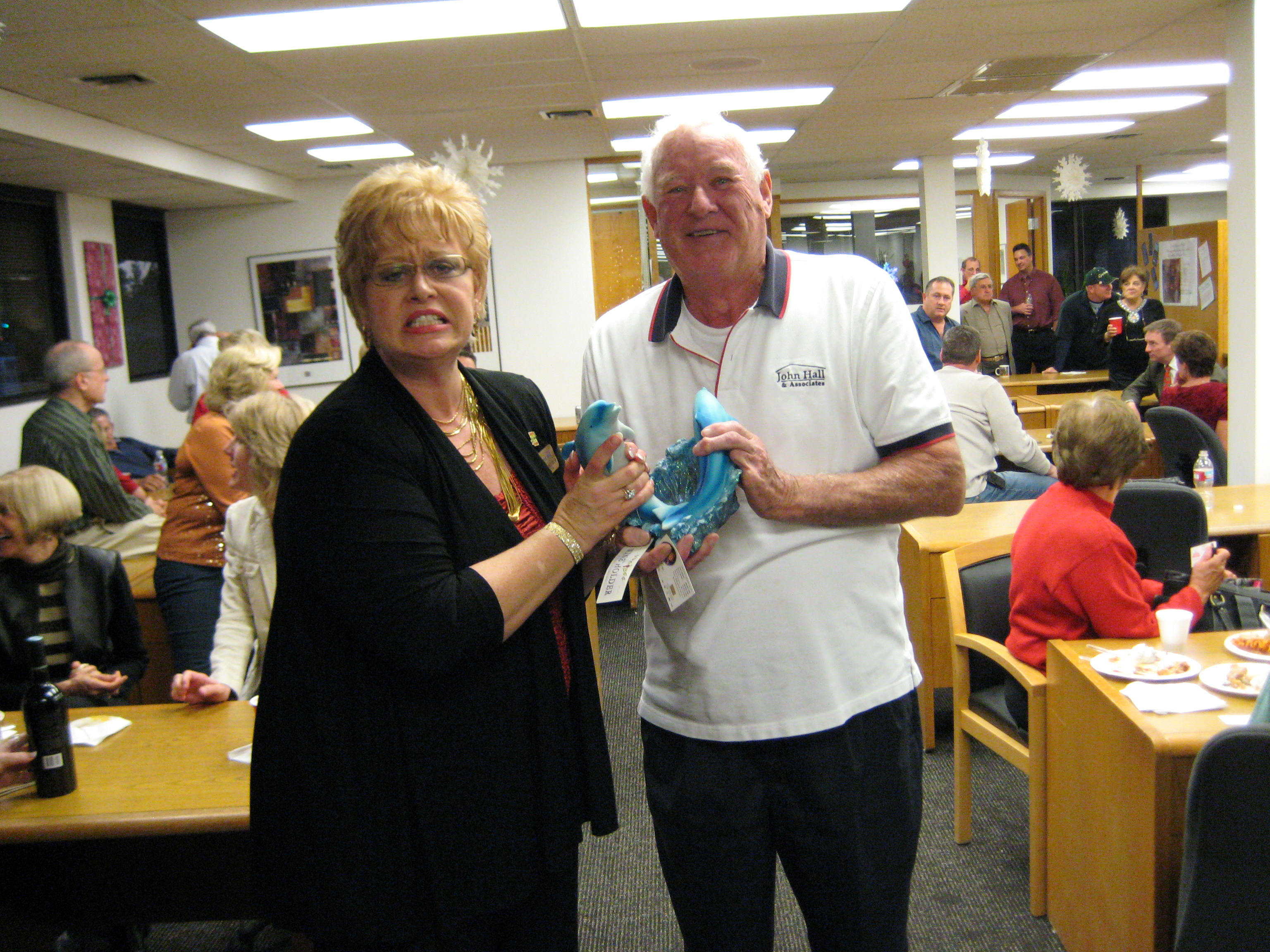 At a Tempe, Arizona holiday party Leslie didn't want John to take her gift in the white elephant gift exchange.